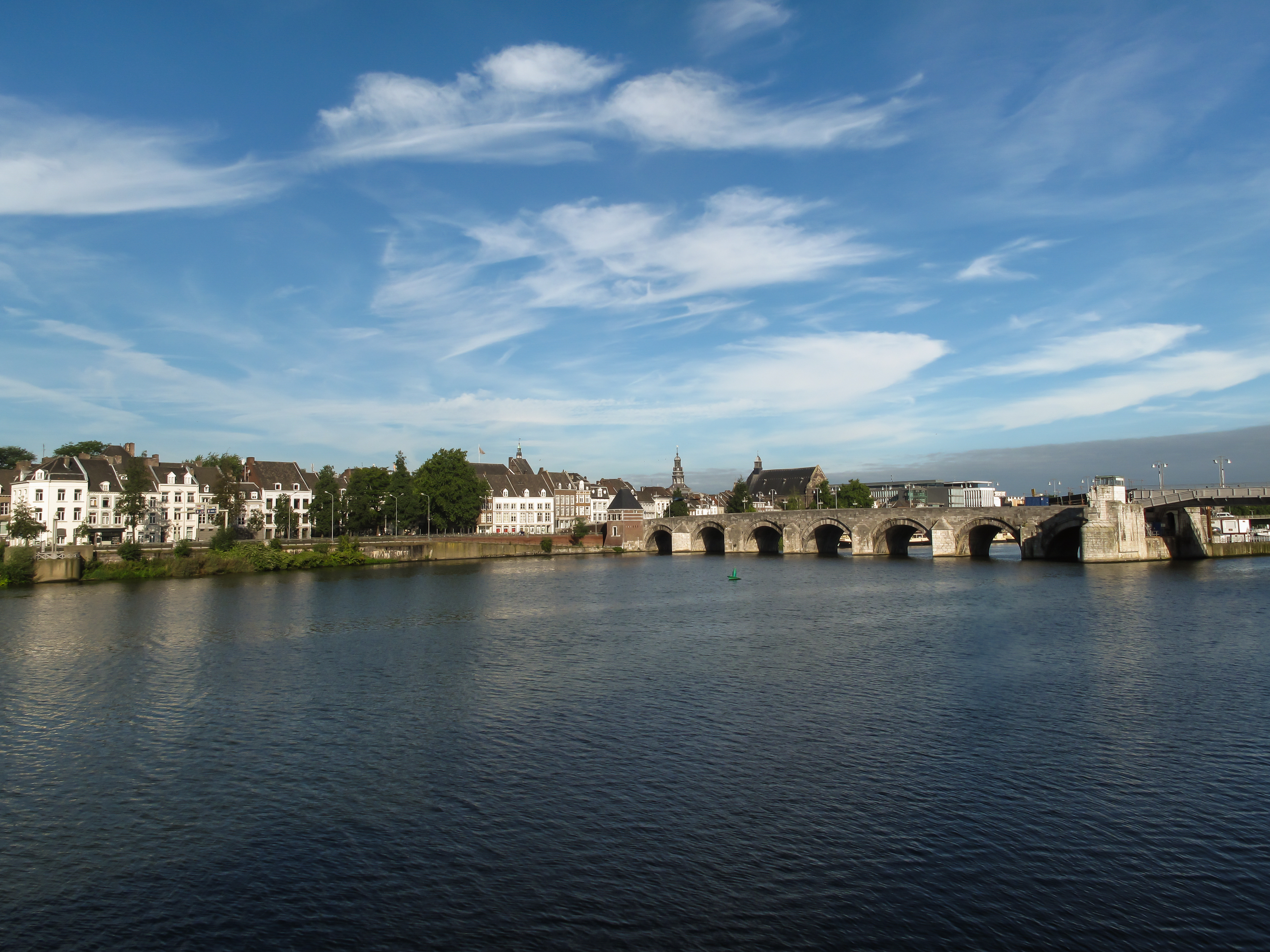 Maastricht, view to the city